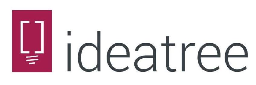 ideatree logo